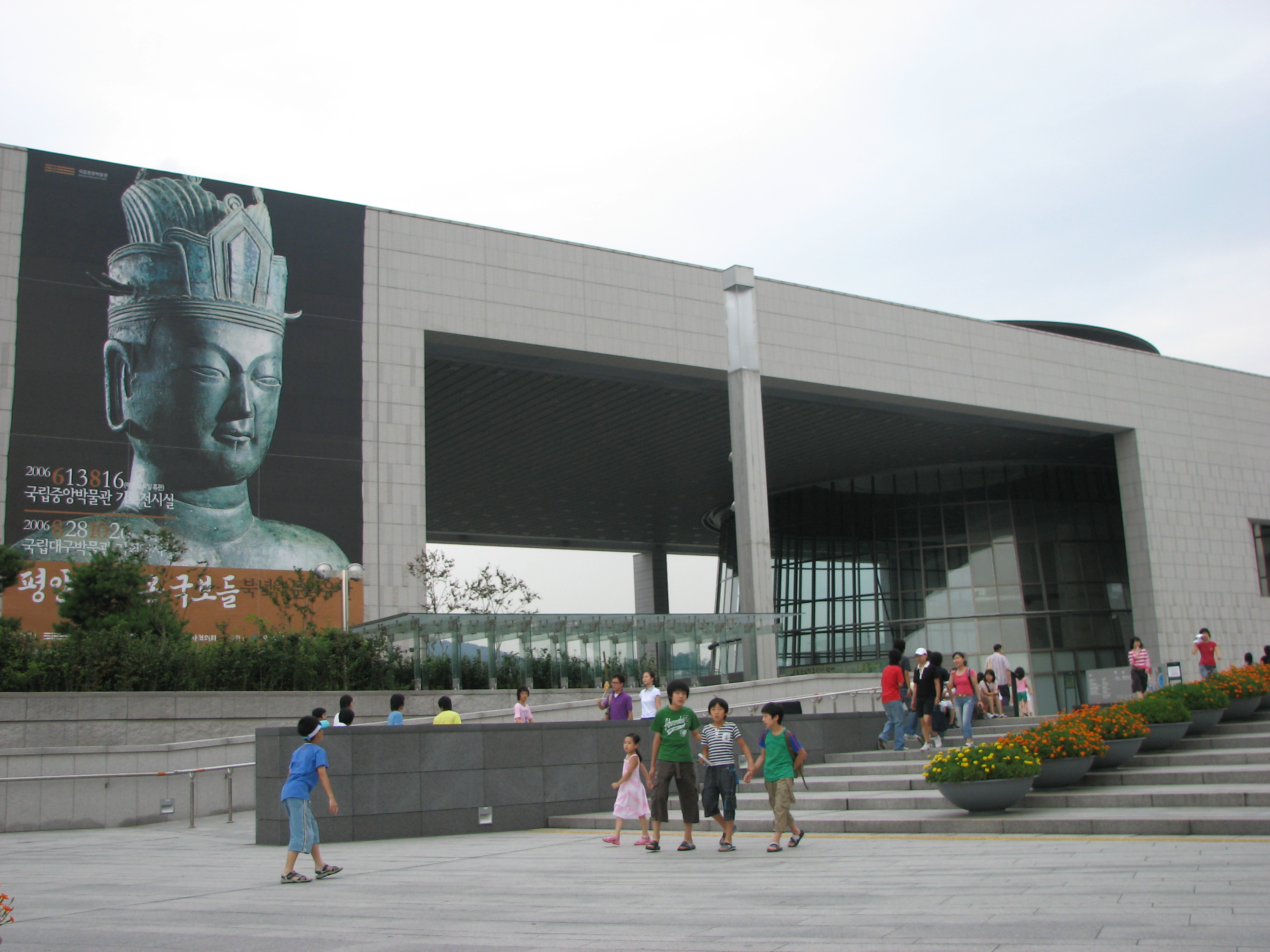 National Museum of Korea, Seoul, South Korea